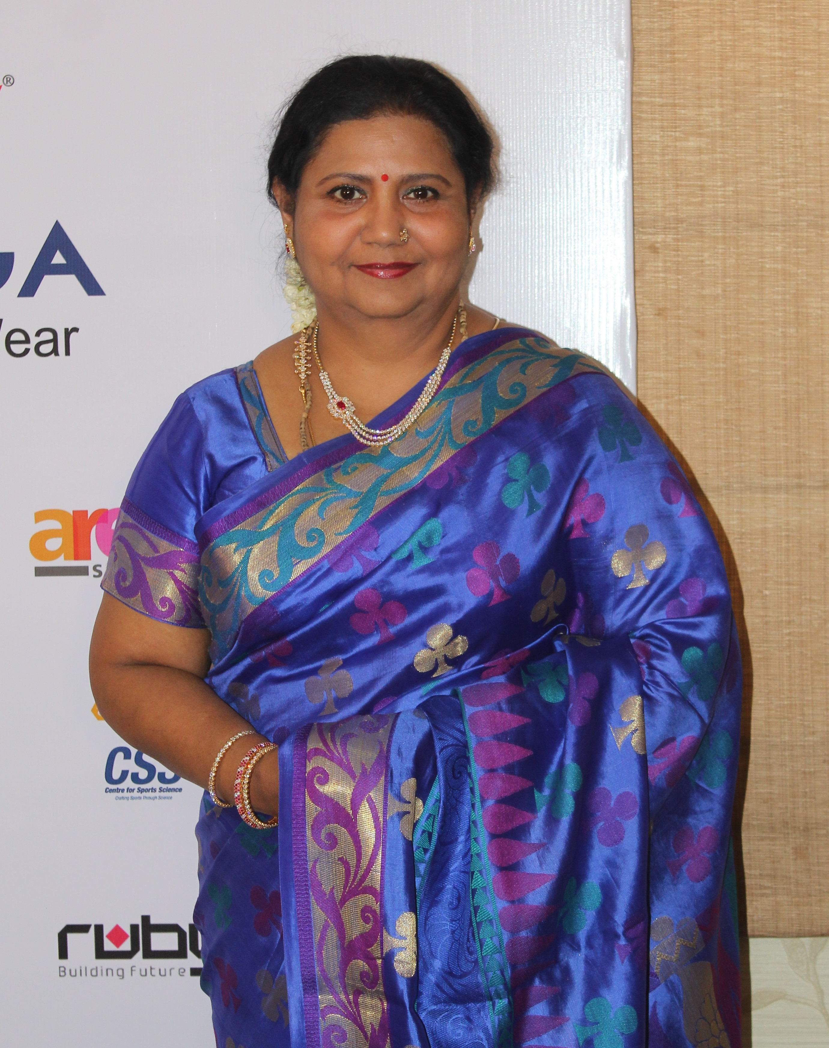 Kutty Padmini Mam at Kreeda cup press meet